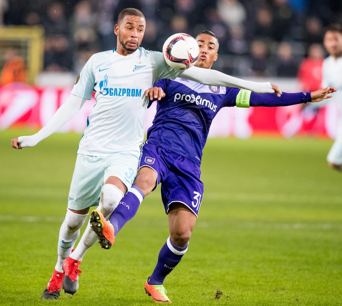 Hernani Azevedo Júnior and Youri Tielemans on 17 February 2017.